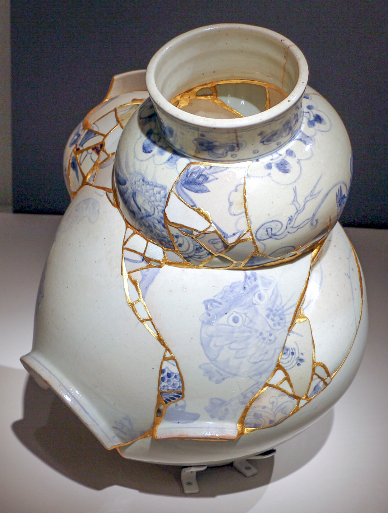 Asian art in the Smart Museum of Art